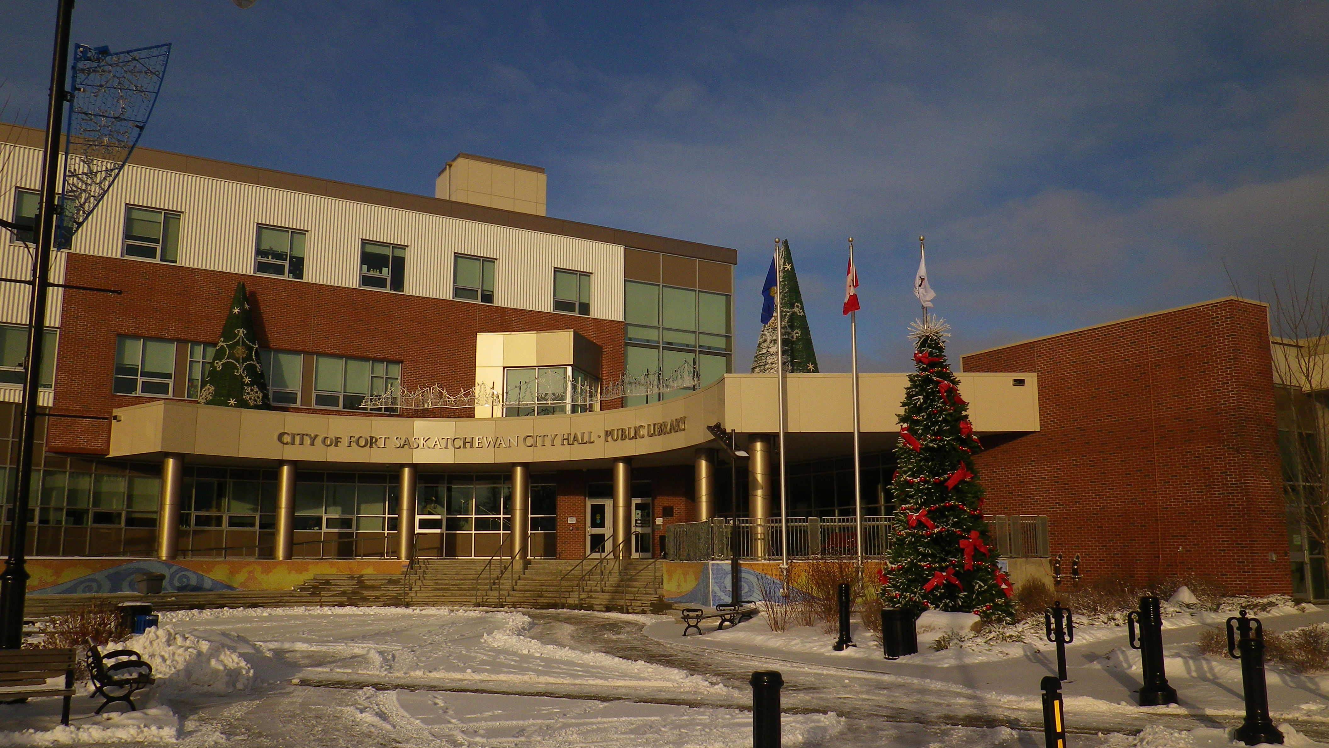 Photograph of the Fort Saskatewan Public Library and City Hall building_31-Dec-2016_4224x2376px.JPG